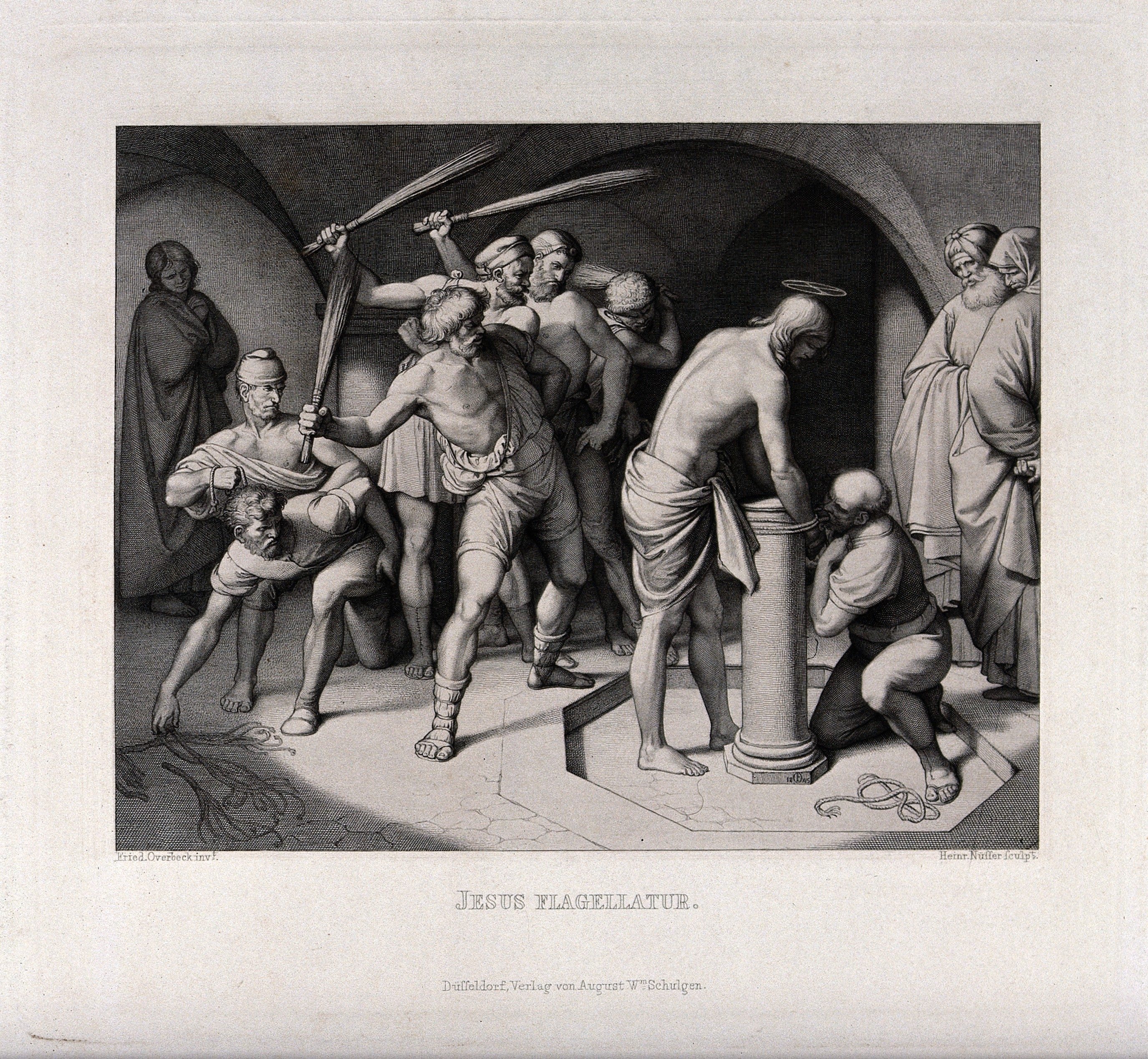 The flagellation of Christ. Etching by H. Nüsser after J. Friedrich Overbeck, 1843. Iconographic Collections Keywords: Heinrich Nüsser; Jesus Christ; Johann Friedrich Overbeck